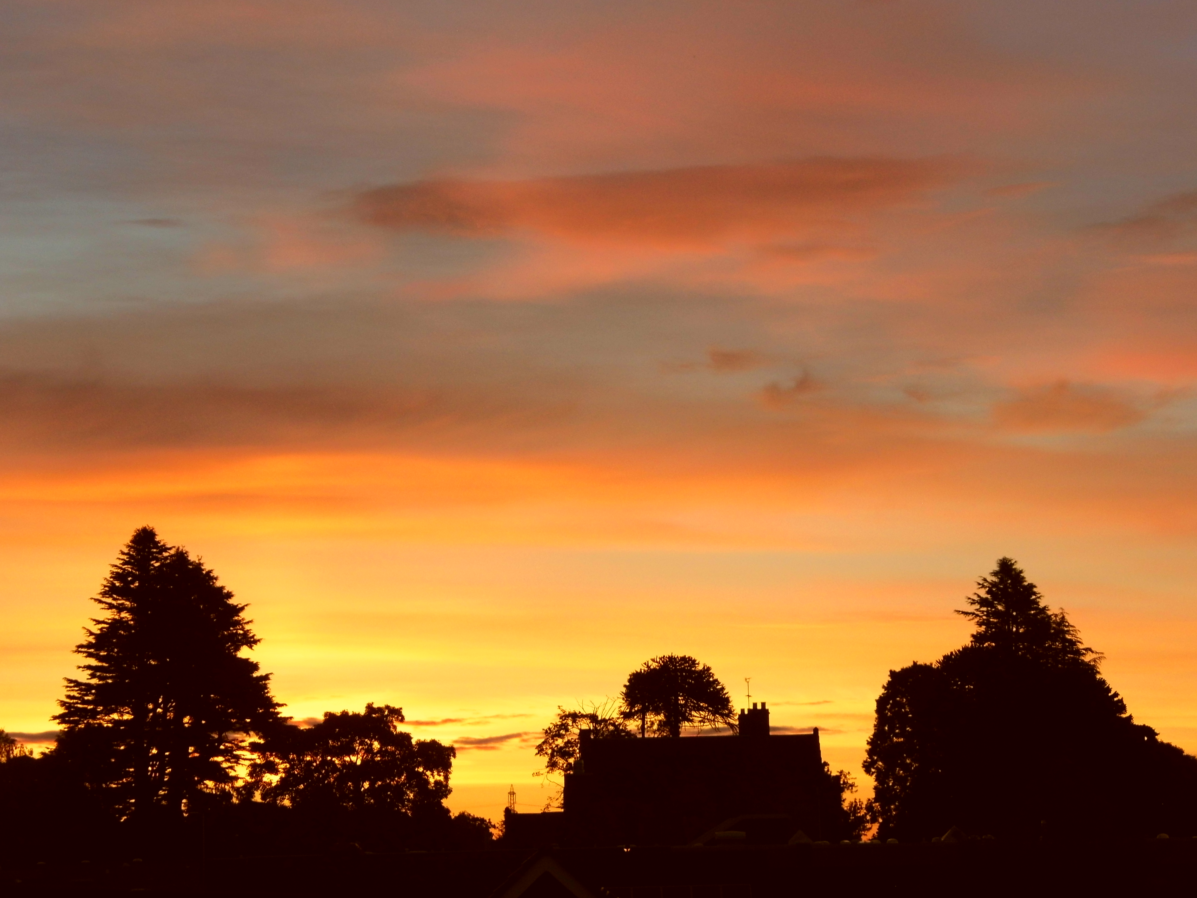 Duns, Station Road, The Knoll Maternity Hospital Wikidata has entry Q17851082 with data related to this item.